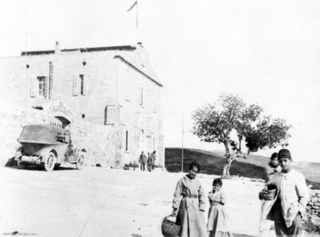 A building apparently on the outskirts of Nazareth, previously identified as the German Headquarters in the town. Local people are in the foreground and a car is parked outside the building.